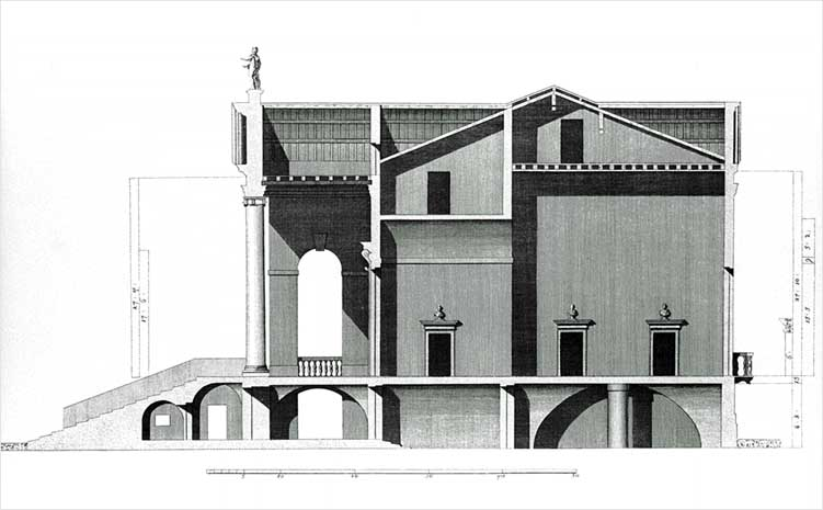 Plan of Villa Chiericati drawn by Bertotti Scamozzi in 1781 public domain by virtue of age.